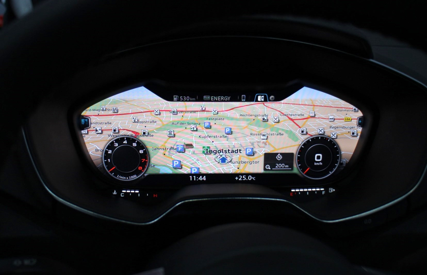 Virtual Cockpit of the new Audi TT, MMI Touch, conceptual Laserlights, zFAS Sensor Motherboard in early alpha and beta status, the Audi CEO Rupert Stadler and his head of electronics development Ricky Hudi